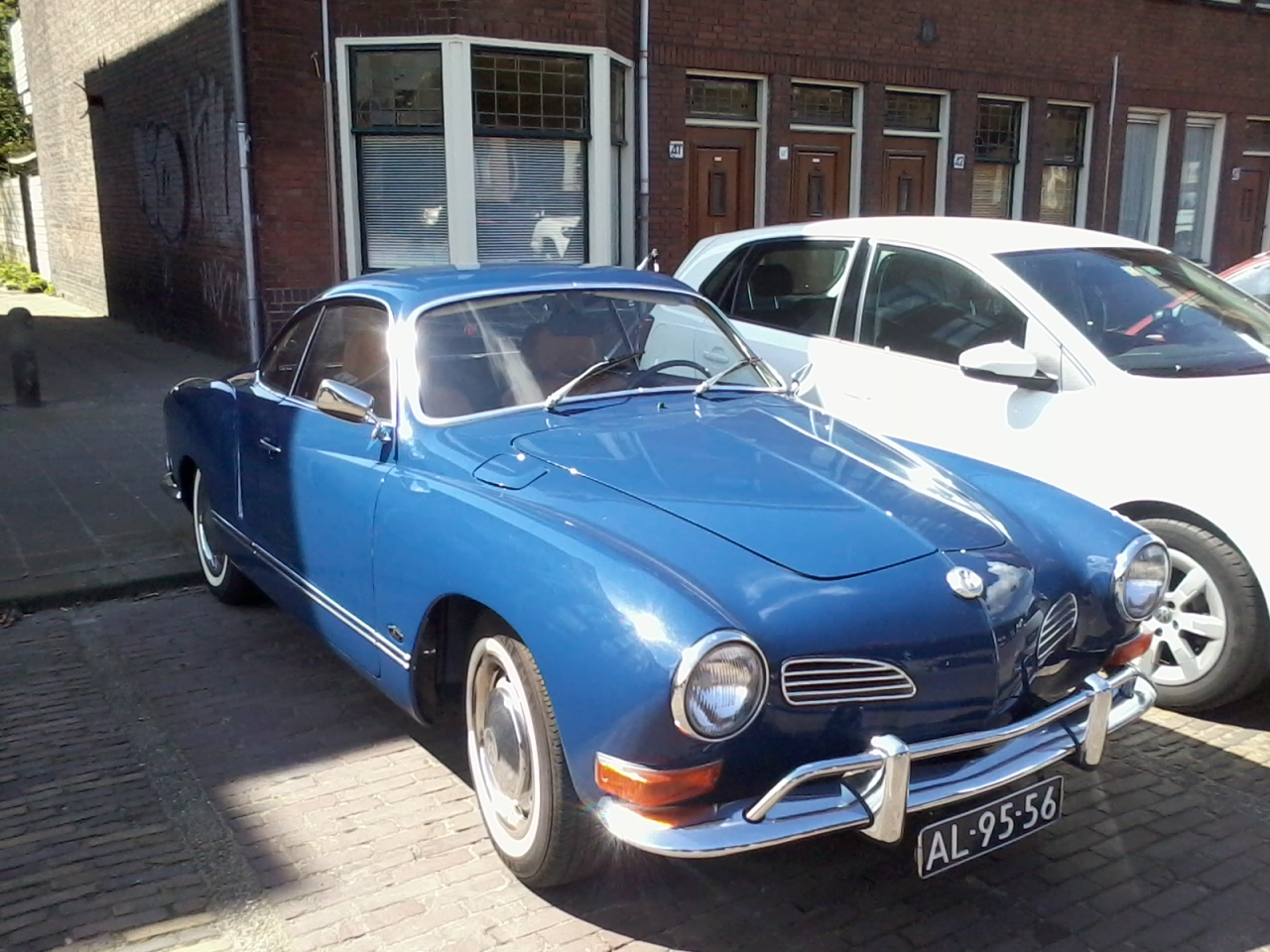 VW Karmann Ghia 1970. from: The Netherlands, Delft. Special rights from the owner